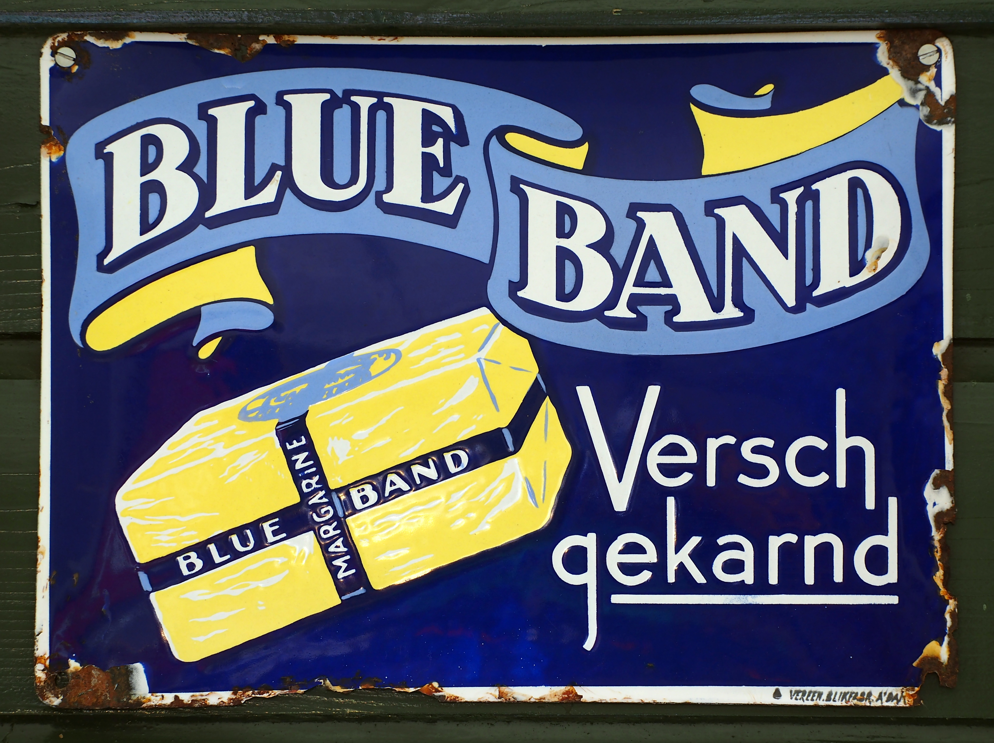 Photographed at the Museum In den Halven Maen, The Netherlands.